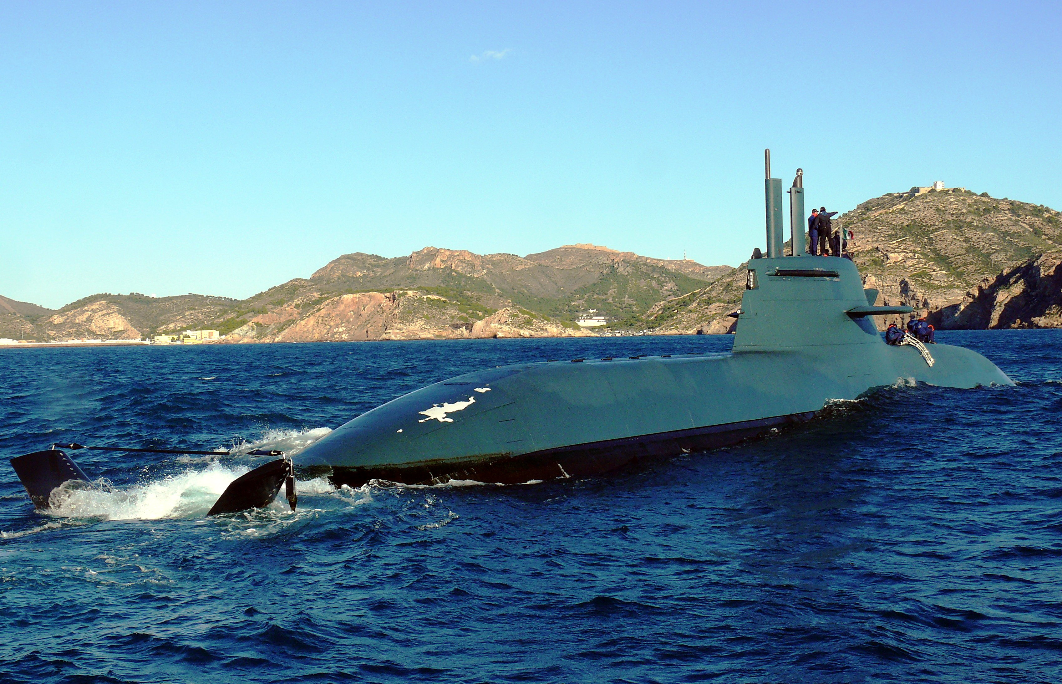 Italian submarine Scirè